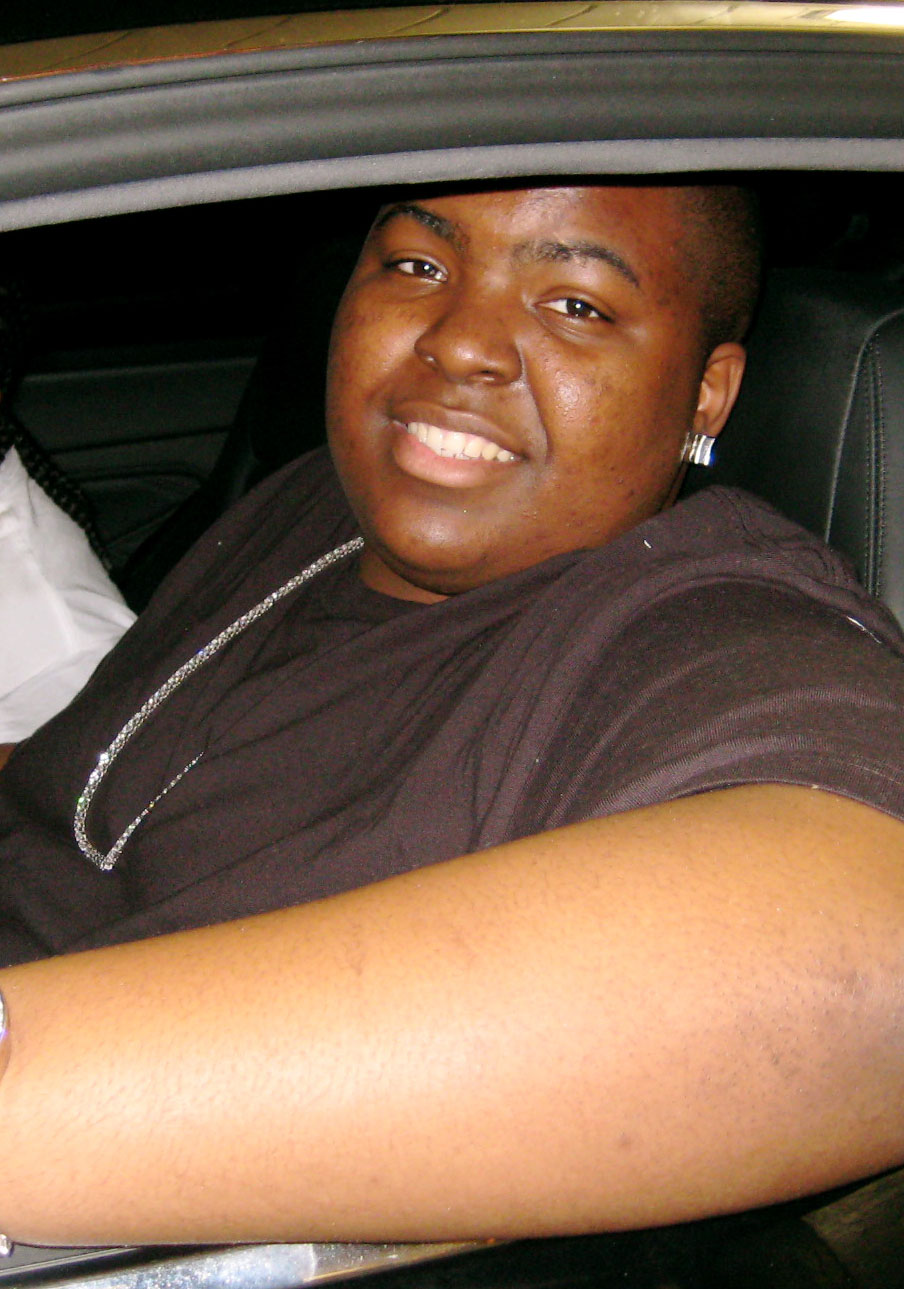 Singer Sean Kingston on December 26, 2007